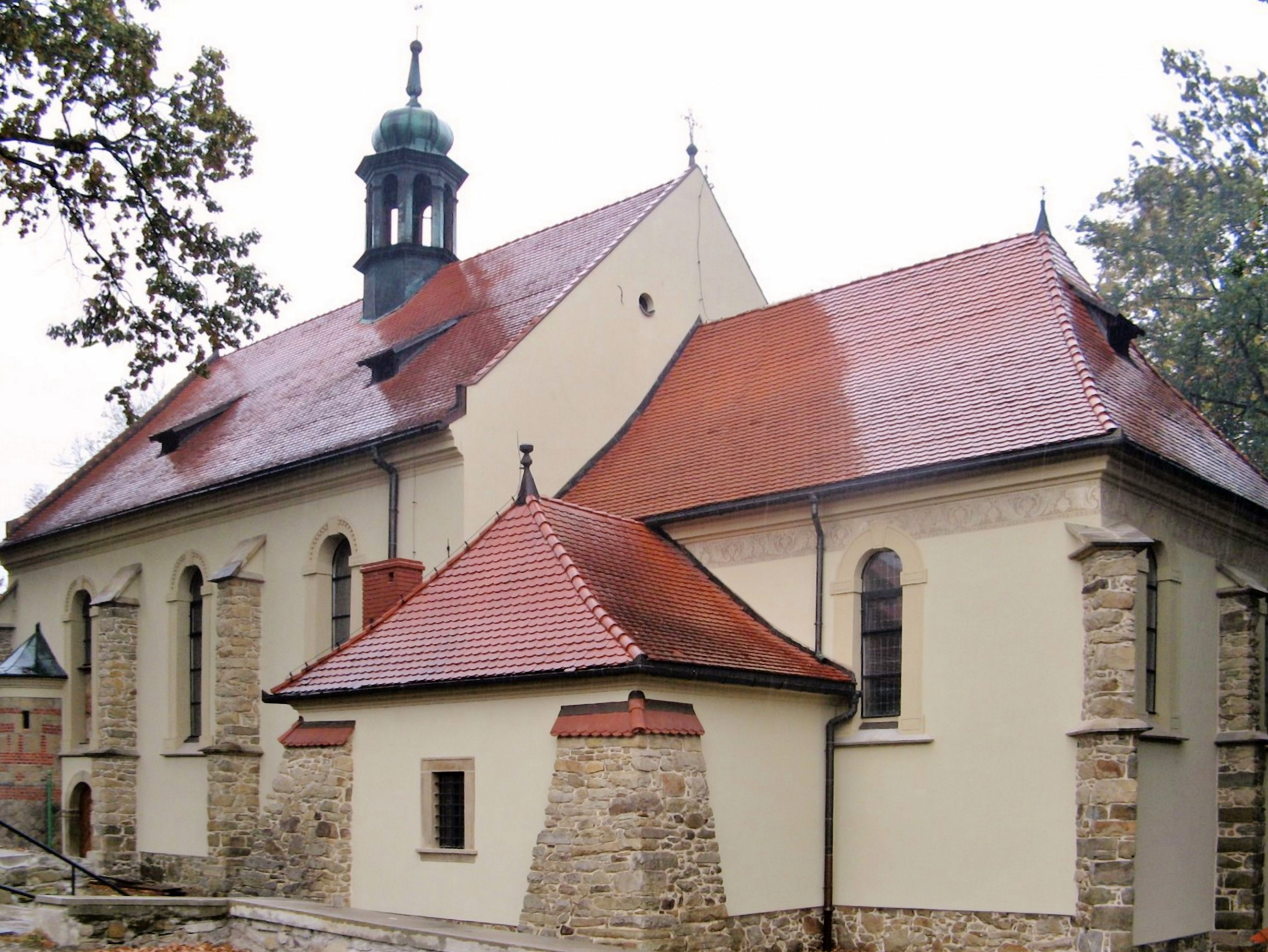 Sucha Beskidzka - old church of the Visitation of the Blessed Virgin Mary the former monastery of Canons Regular